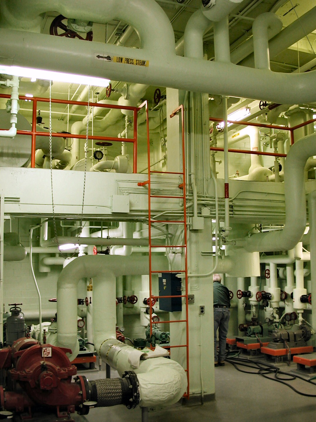 Author: P199 Source